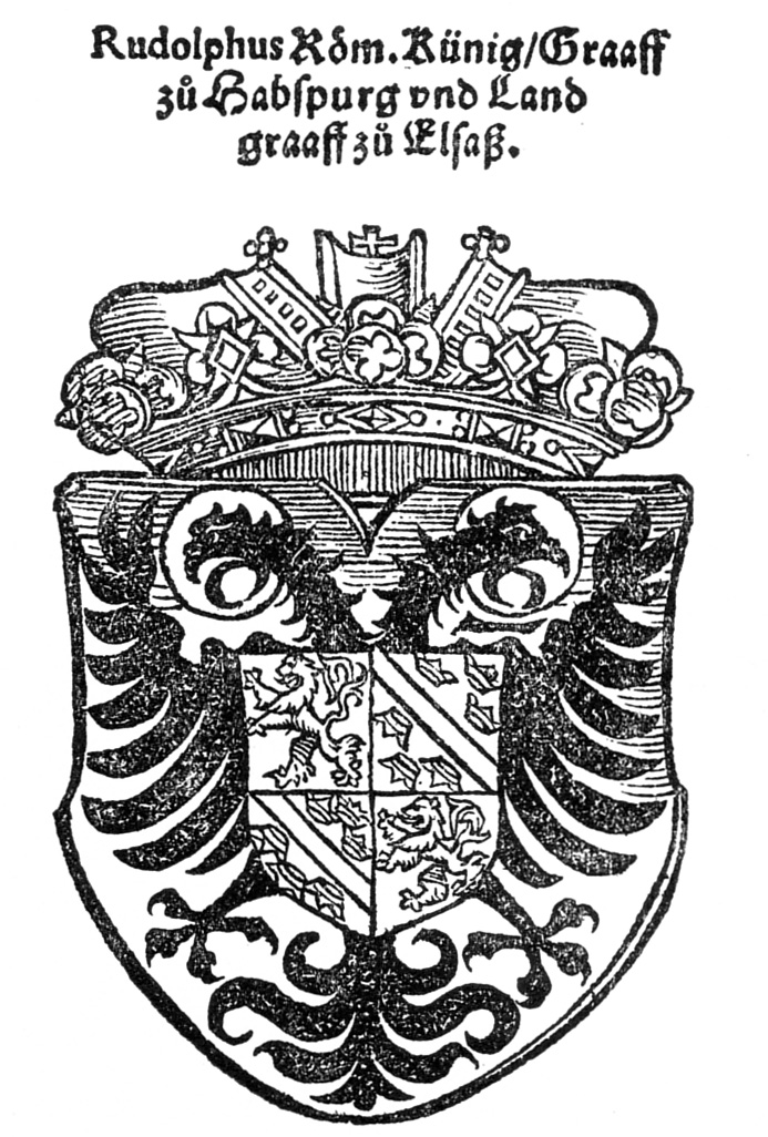 Coat of arms of Rudolf I of Habsburg as Roman King in the chronicle of Johannes Stumpf